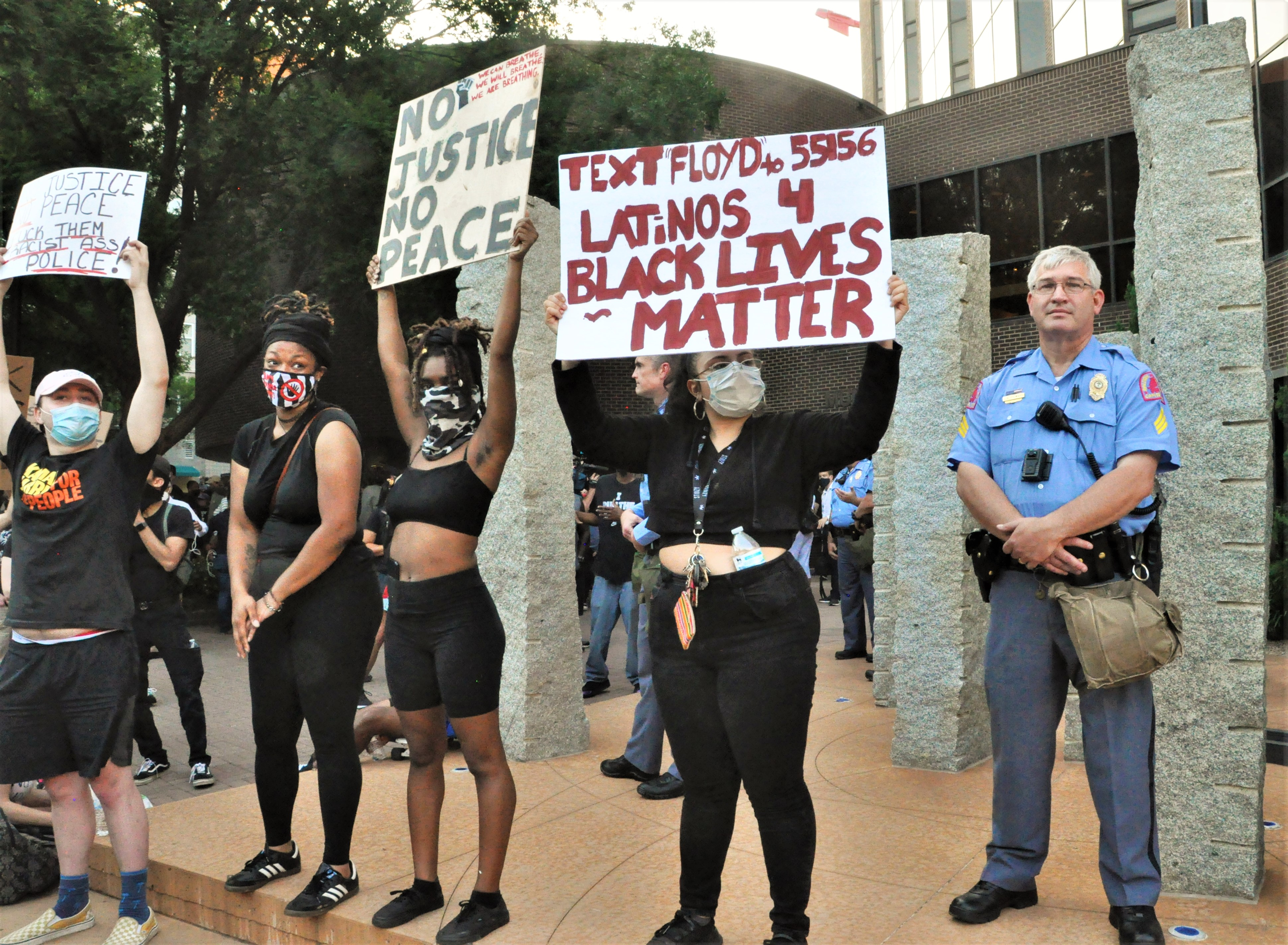 Raleigh Protests 6/2/2020